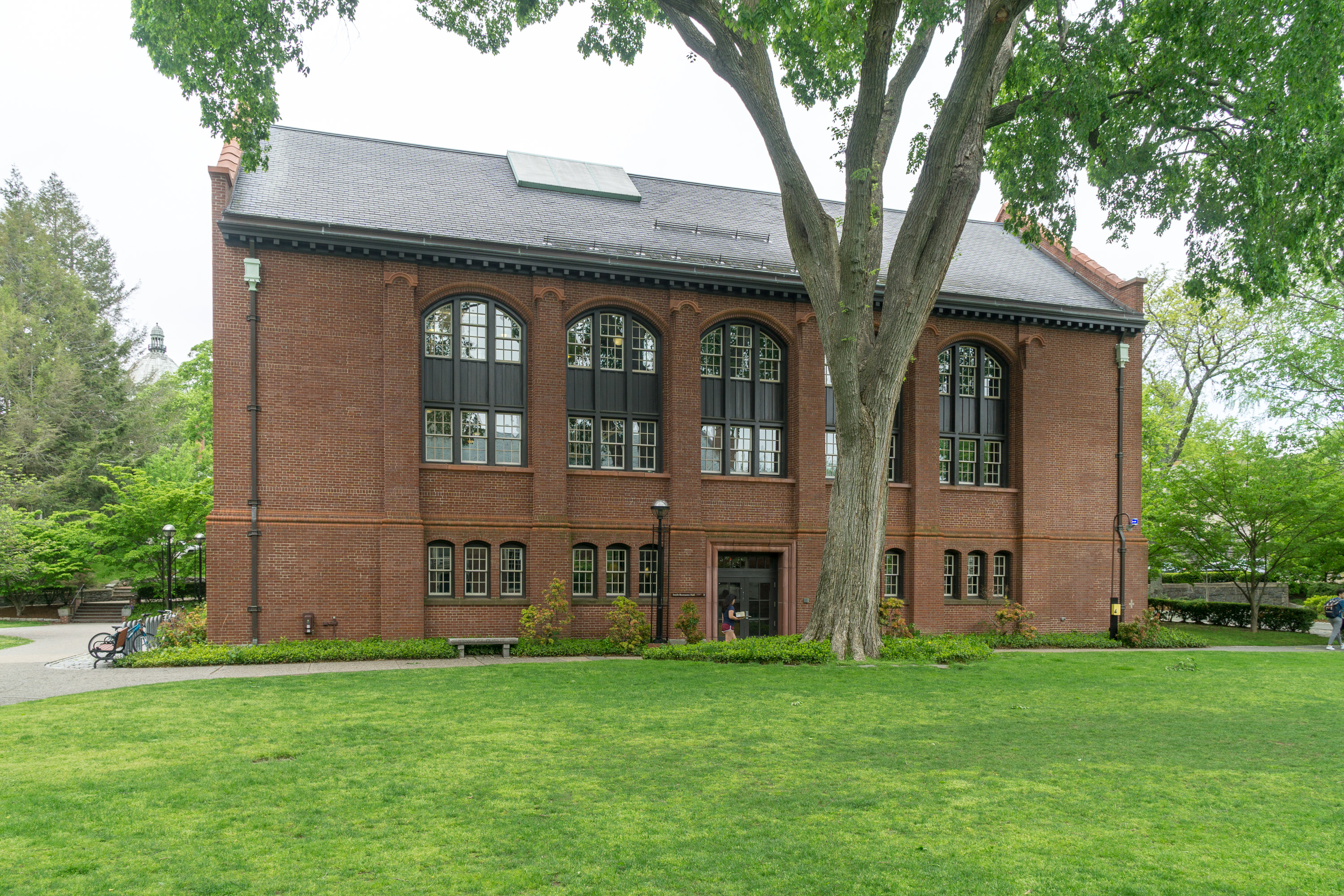 Smith-Buonanno Hall, Brown University